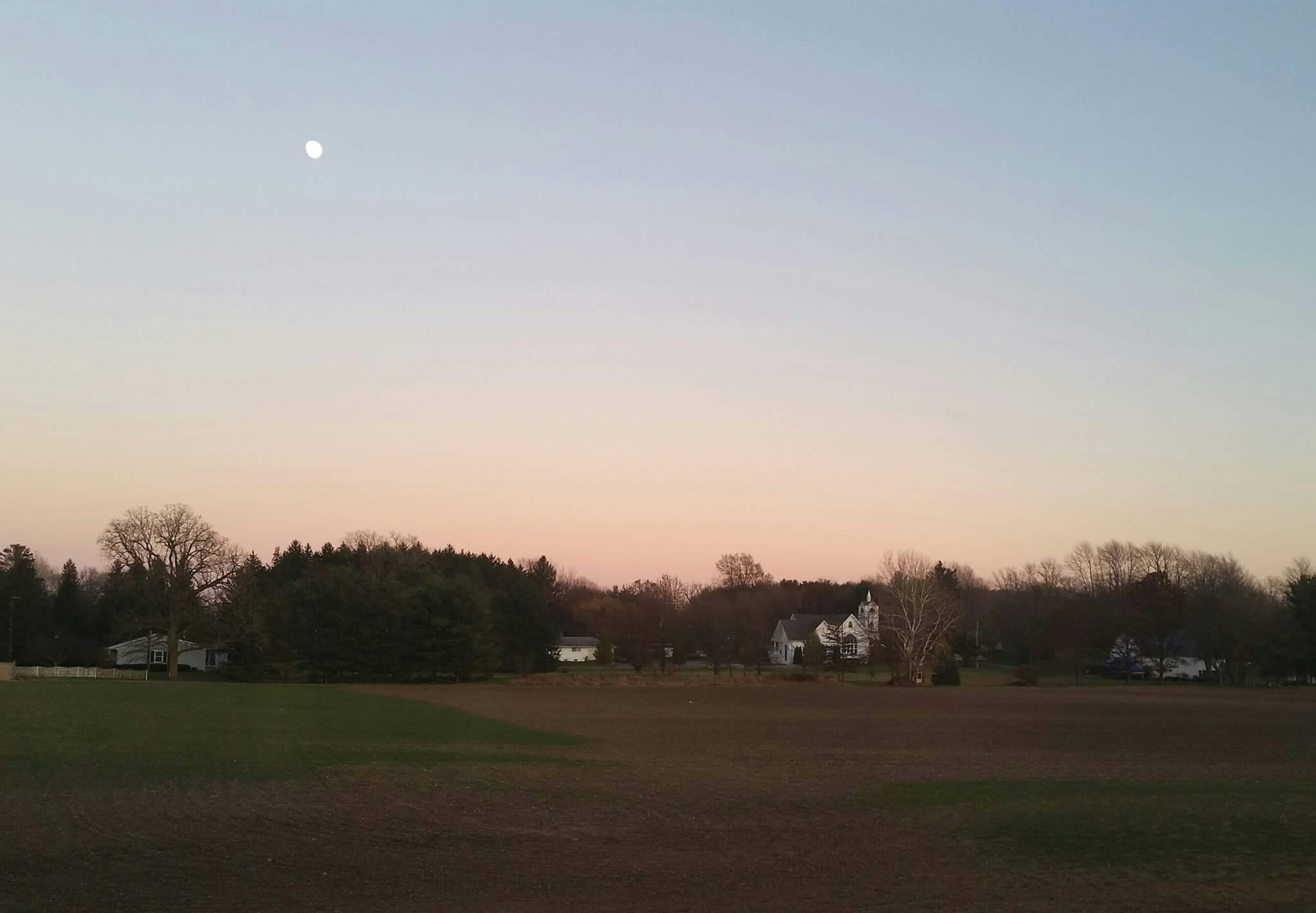 Lytton, Ohio, an unincorporated village in Fulton County viewed from the west accross a field.